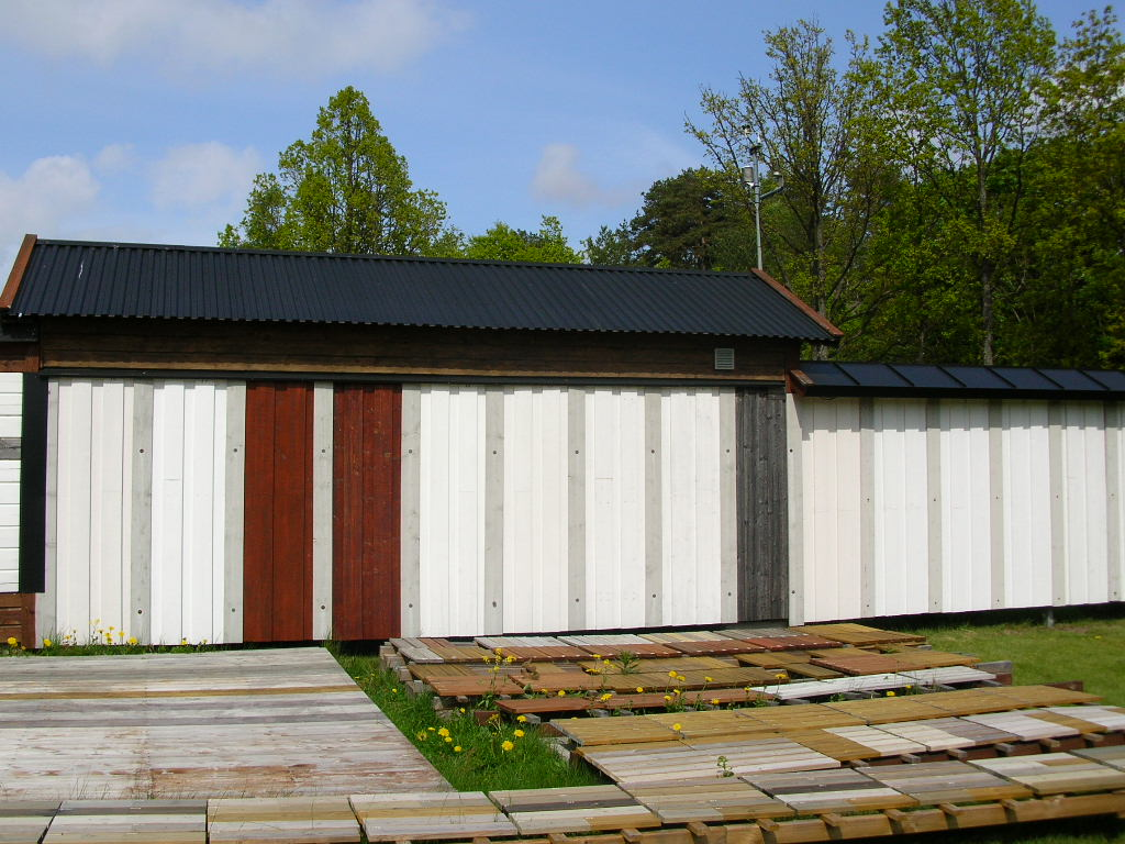 Jotun research centre to collect dose-response data in Sandefjord, Norway